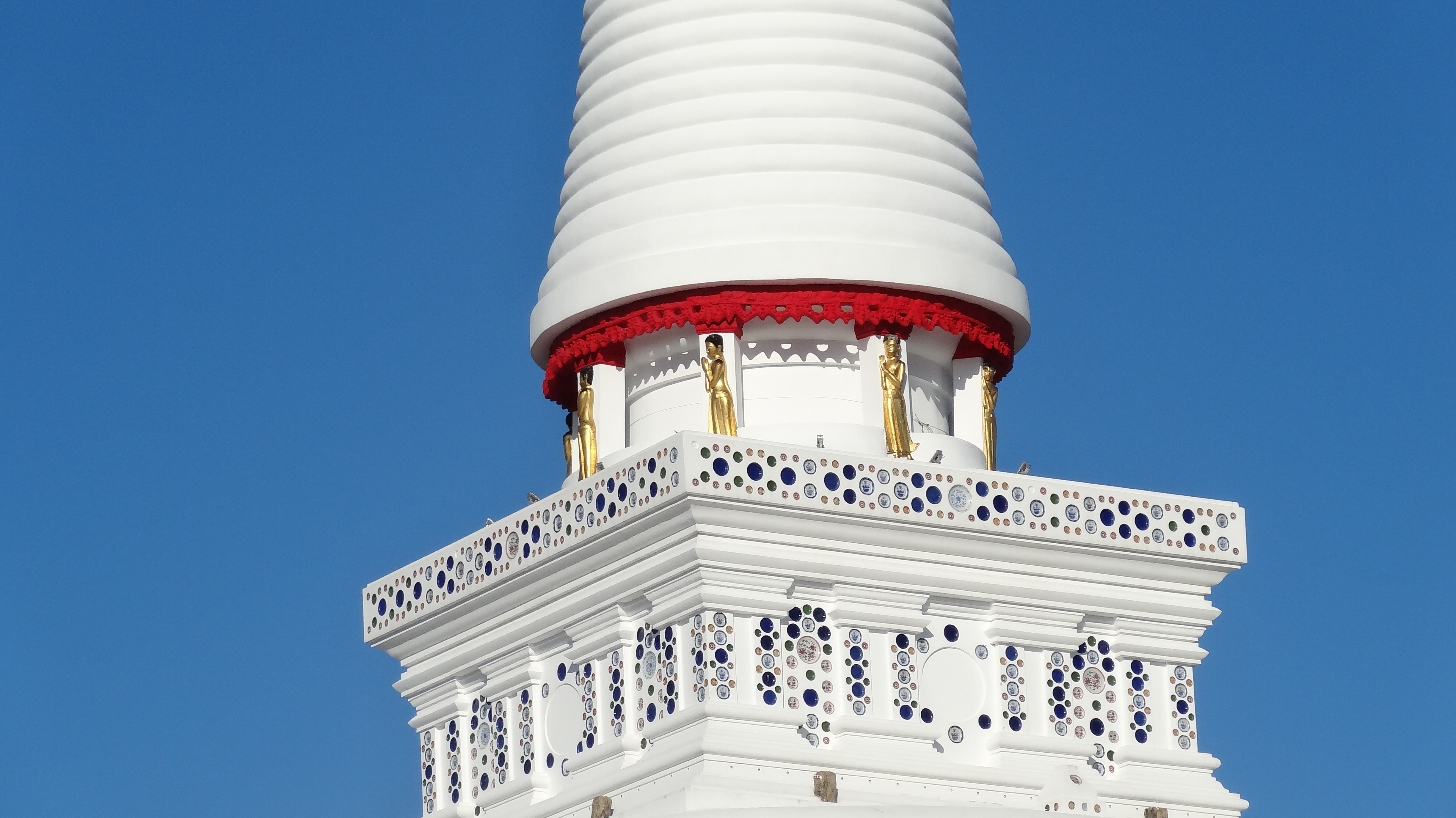 Wat Phra Mahathat Woromaha Vihan Nakhon Si Thammarat Thailand